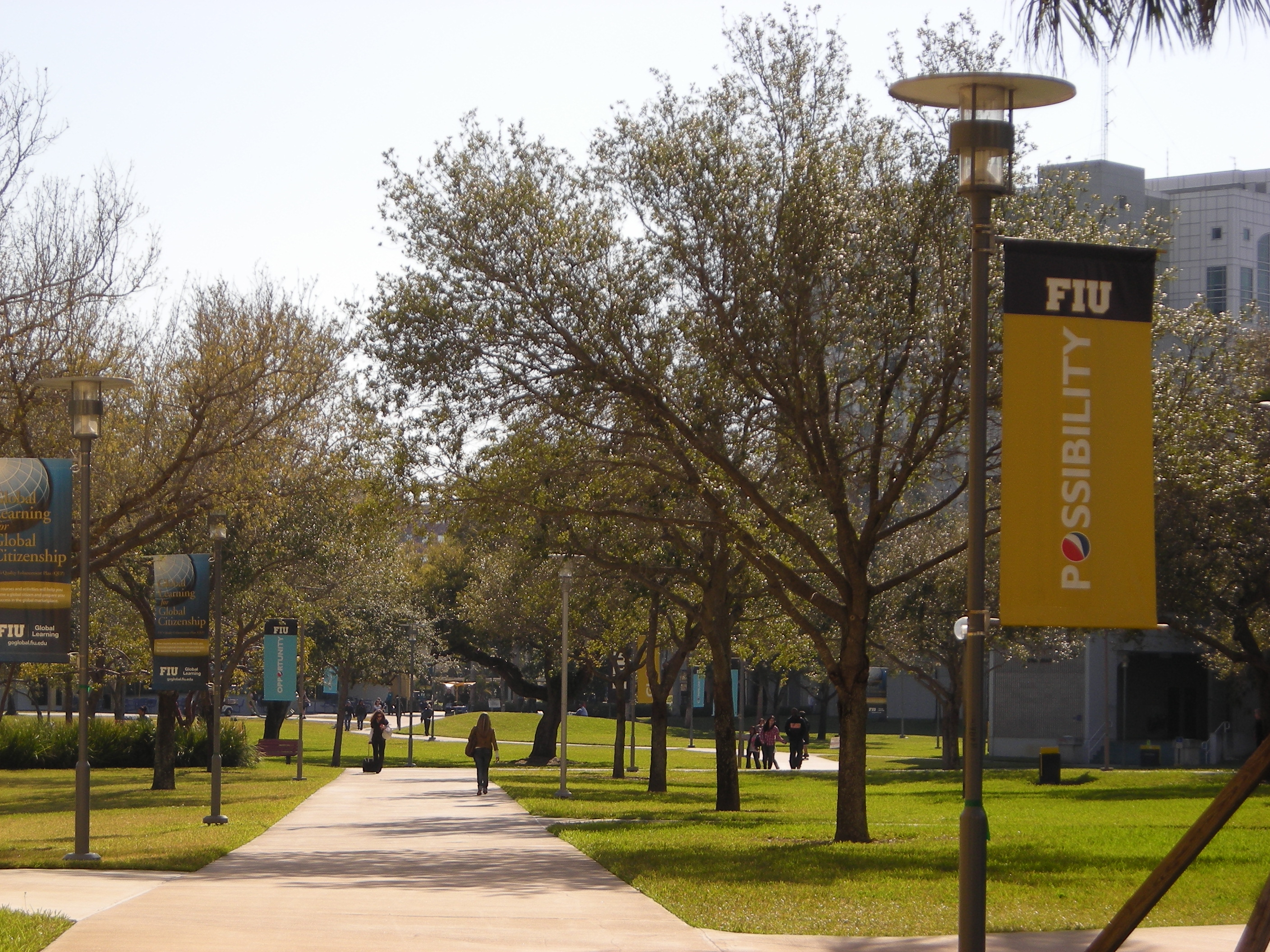 Florida International University paths through the quad